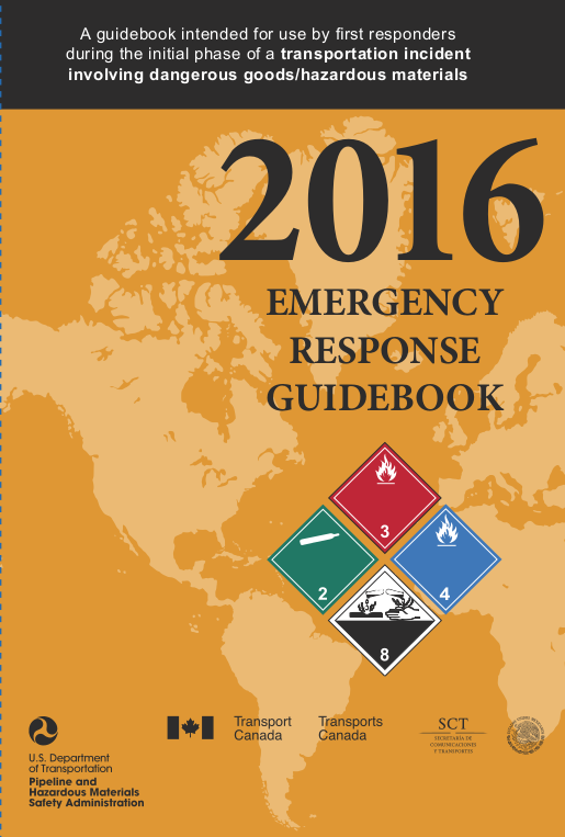 Front cover of the 2016 Edition of the Emergency Response Guidebook.